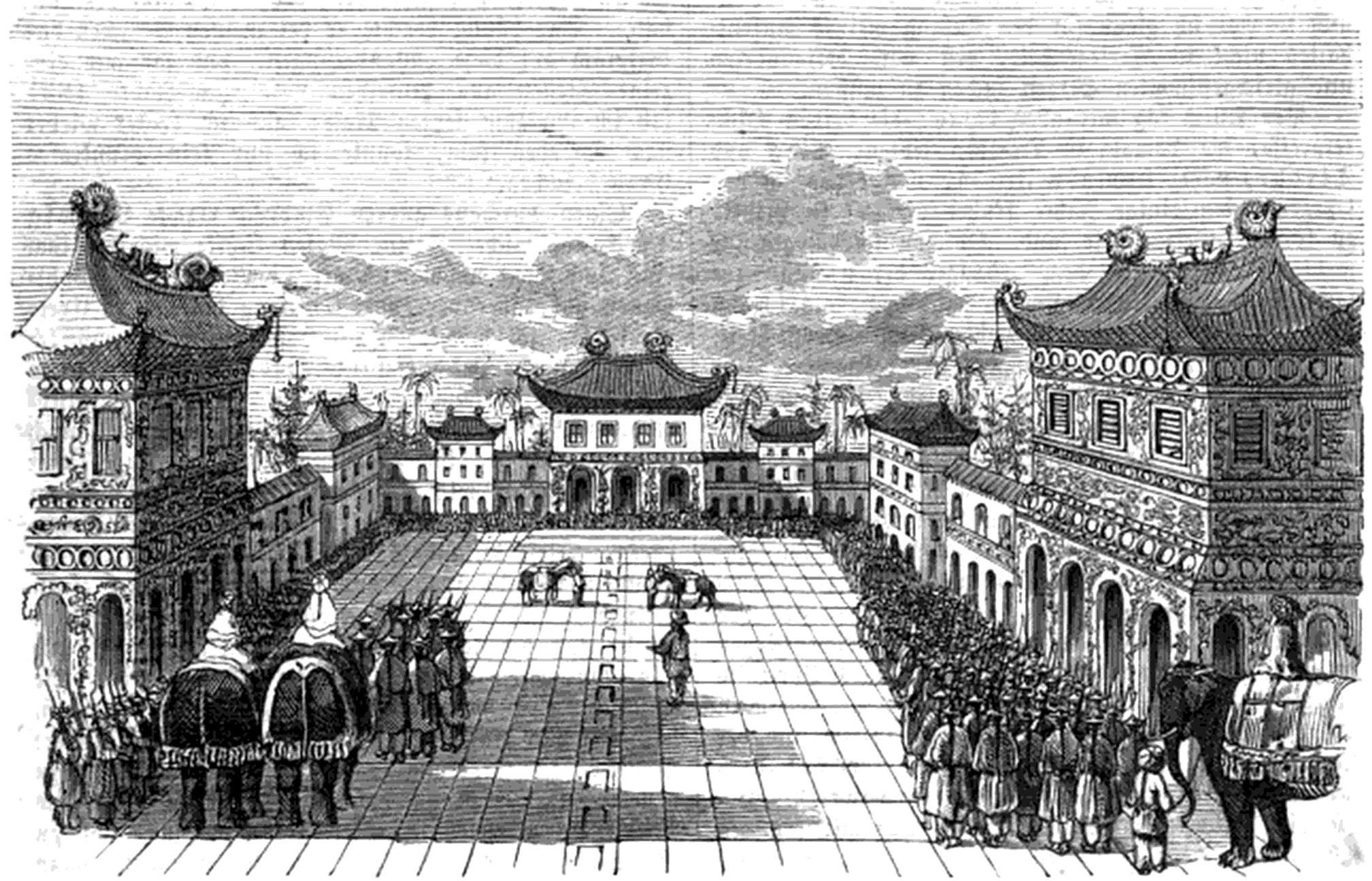 caption: "Der kaiserliche Palast in Peking."